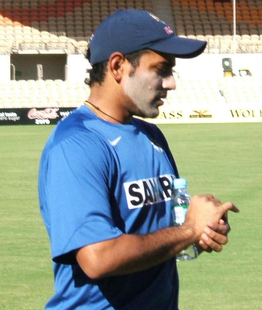 Robin Uthappa at Adelaide Oval